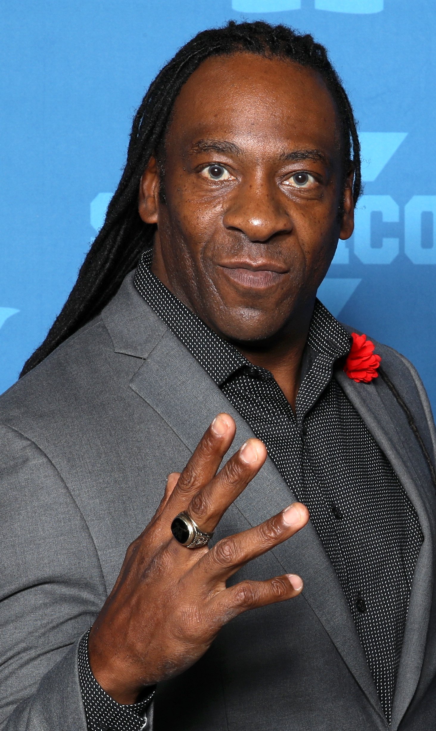 Photo_Ops-Booker_T_20181201_0002